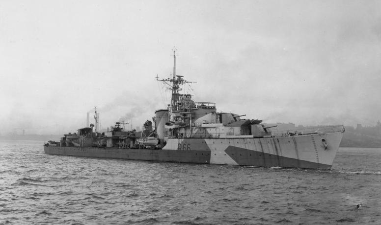 Photograph of British Z class destroyer HMS Zambesi, under tow on the River Mersey.